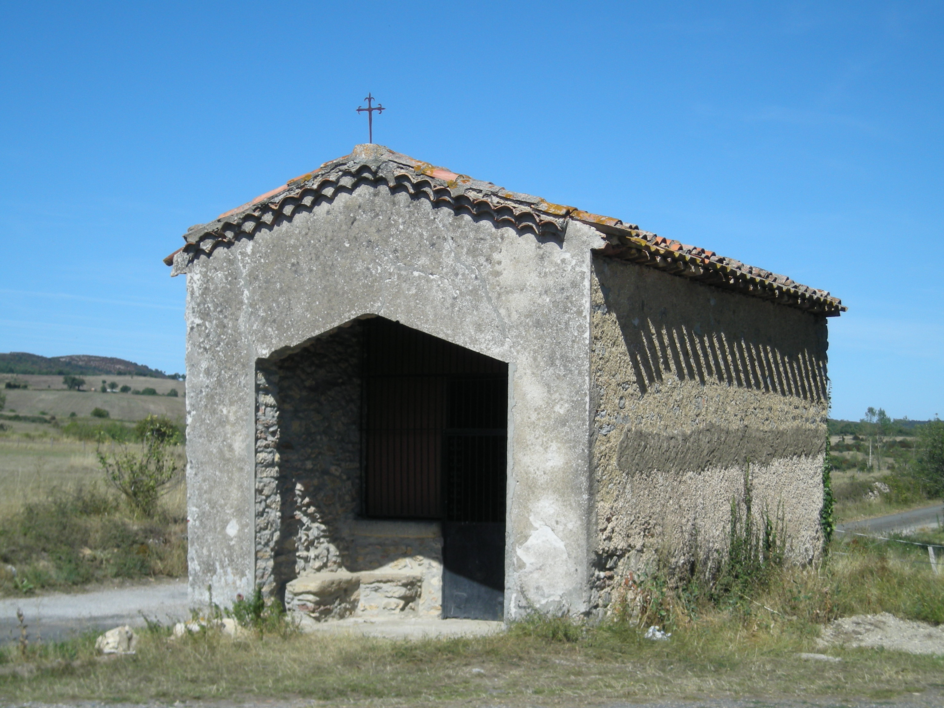 Chapel in Mouthoumet (Aude)